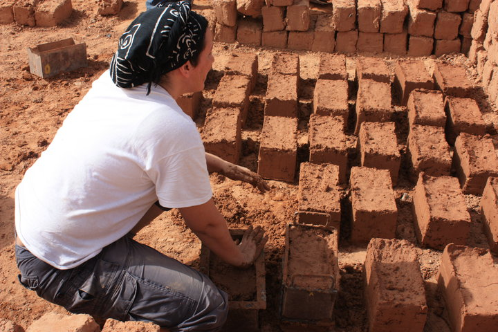 one of the Spanish volunteers preparing the clay bricks.